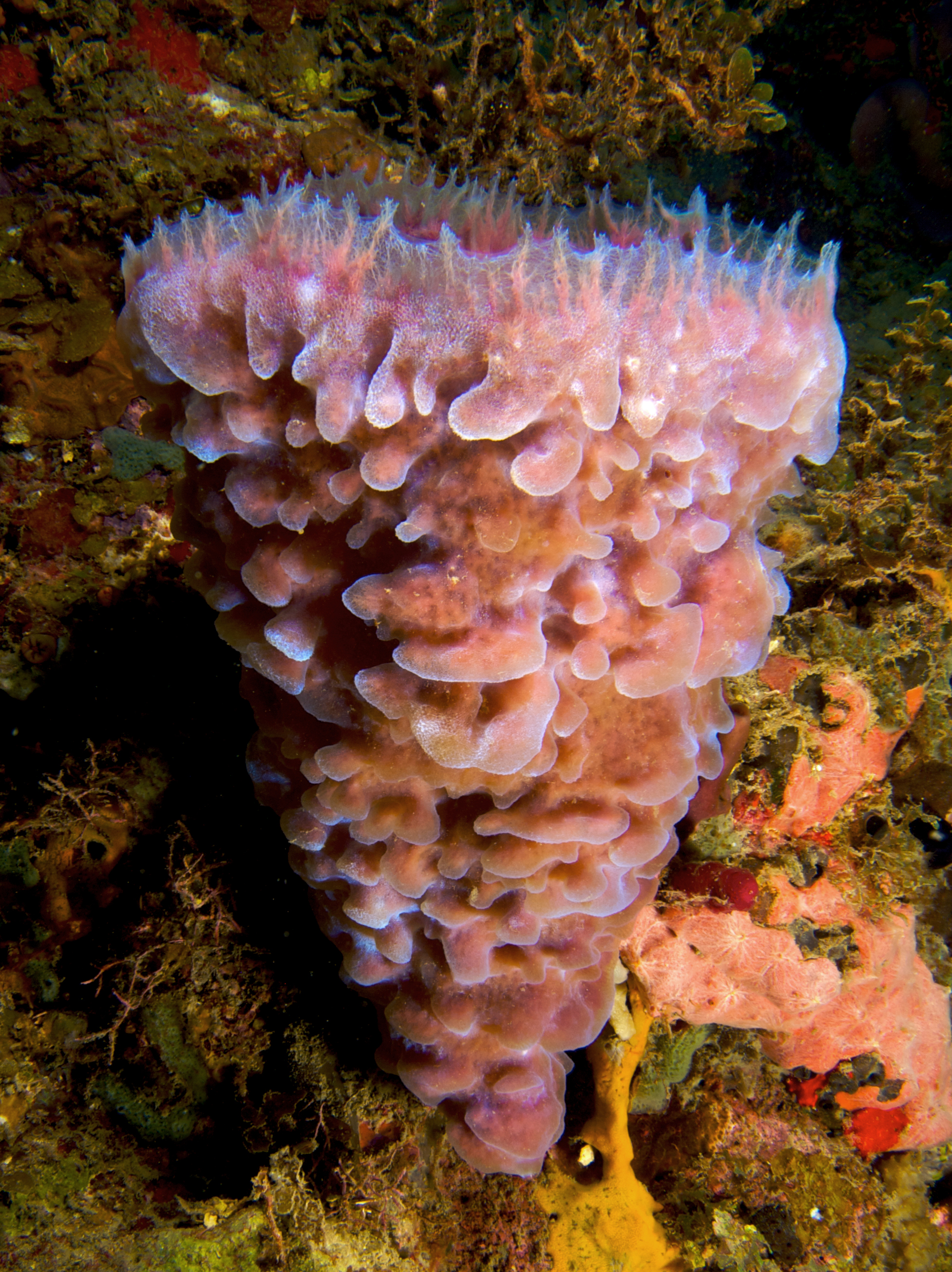 Callyspongia plicifera (Azure Vase Sponge)